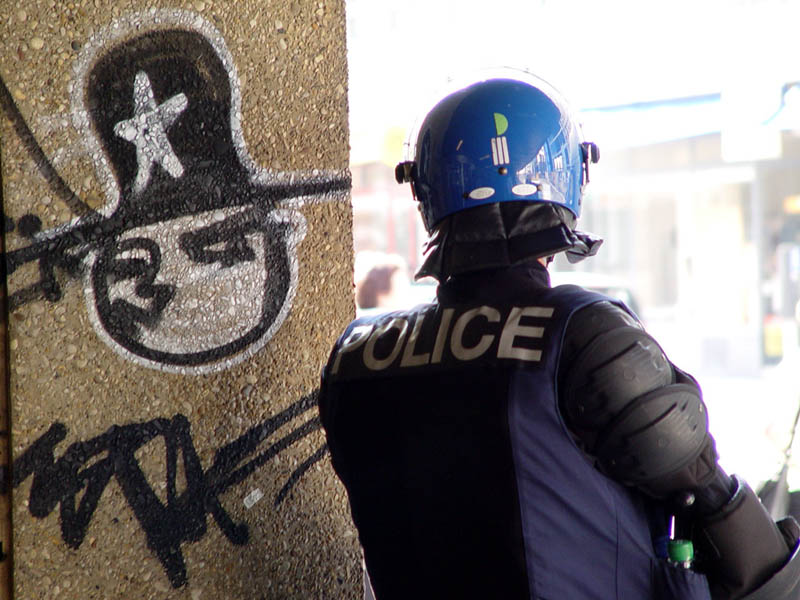 G8 at Evian and effects at Geneva in june 2003. Policeman defending "Hotel des Finances" (Photo by Yvan Agnesina).